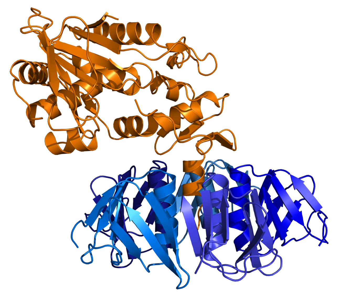 Ribbon diagram of Shiga toxin (Stx) from Shigella dysenteriae. A-subunit shown in orange, B-subunits (forming B-pentamer) shown in shades of blue.Created using PyMOL ( and GIMP. Optimized using OptiPNG.